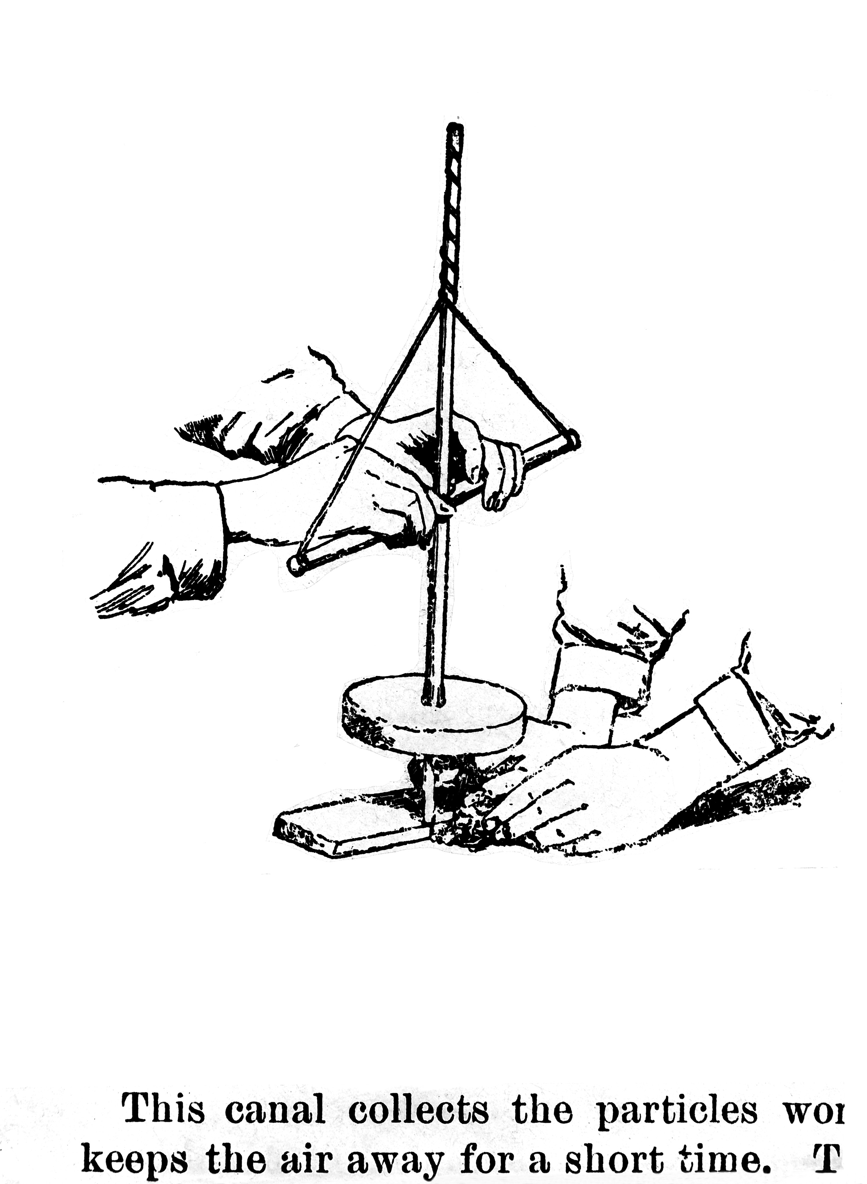 Illustration of Iroquois pum-drill for fire-making Wellcome Images Keywords: primitive knowledge; W Hough; Ethnography